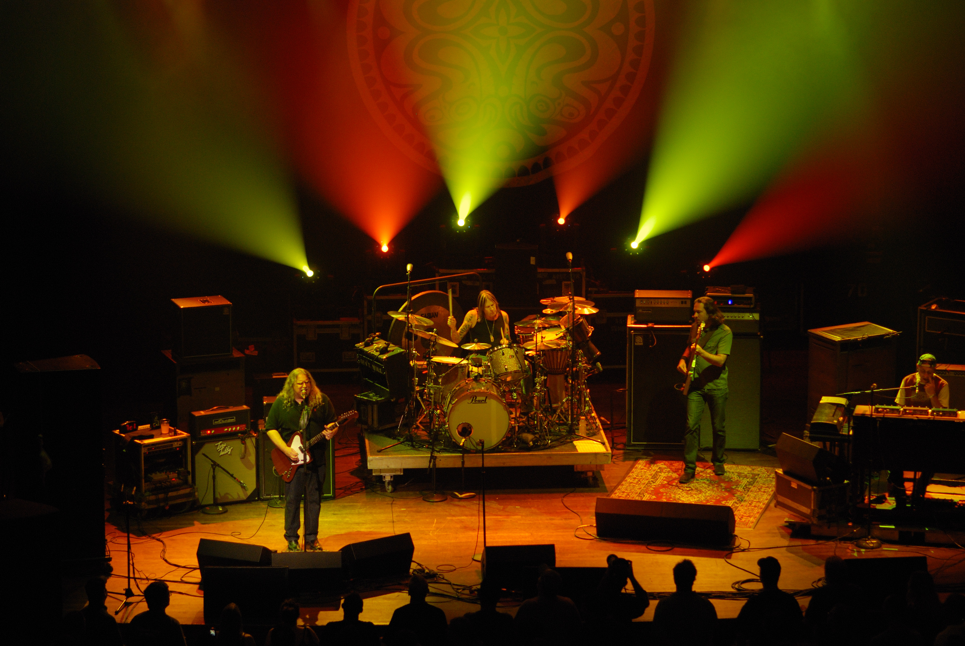 Gov't Mule performed at The Grand on July 24, 2008